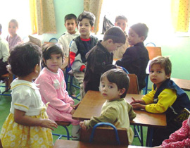 Kindergarten on the Ministry of Agriculture in Afghanistan.